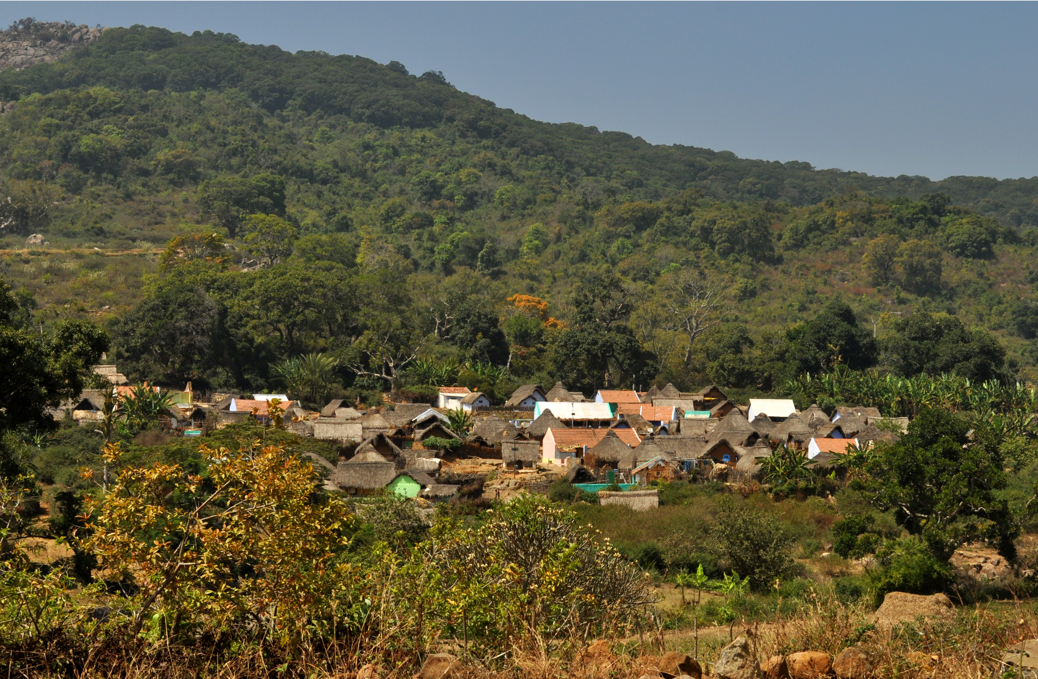 A panoramic view of the Malli Amman Durgham tribal hamlet in the Kadambur division of Sathyamangalam taluk, Erode District, Tamil Nadu, INDIA.